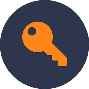 Avast Passwords logo